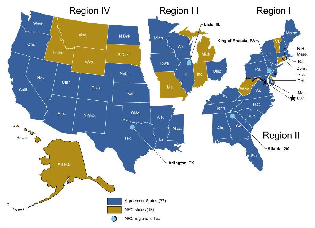 This image is excerpted from a U.S. GAO report: NUCLEAR NONPROLIFERATION: Additional Actions Needed to Increase the Security of U.S. Industrial Radiological Sources Note: Although the figure depicts NRC’s four regions, three of the four regions oversee licensees with radiological sources. Region I, located in Pennsylvania, oversees industrial facilities within Region II that have radiological sources. Regions III and IV oversee such facilities within their respective regions.